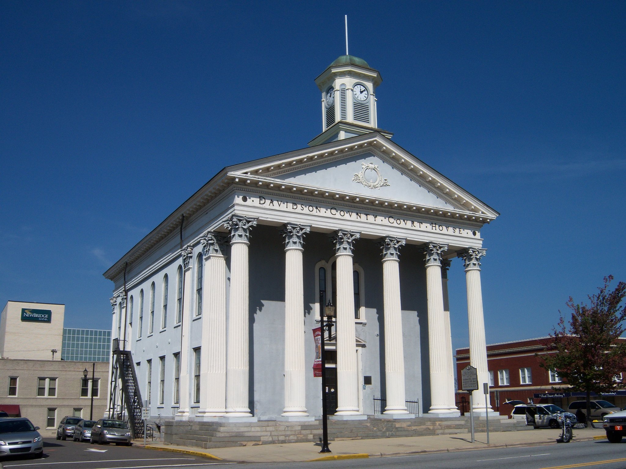 High resolution image of the Old Davidson County Courthouse — in Lexington, North Carolina. Neoclassical Greek Revival style architecture, on the National Register of Historic Places.